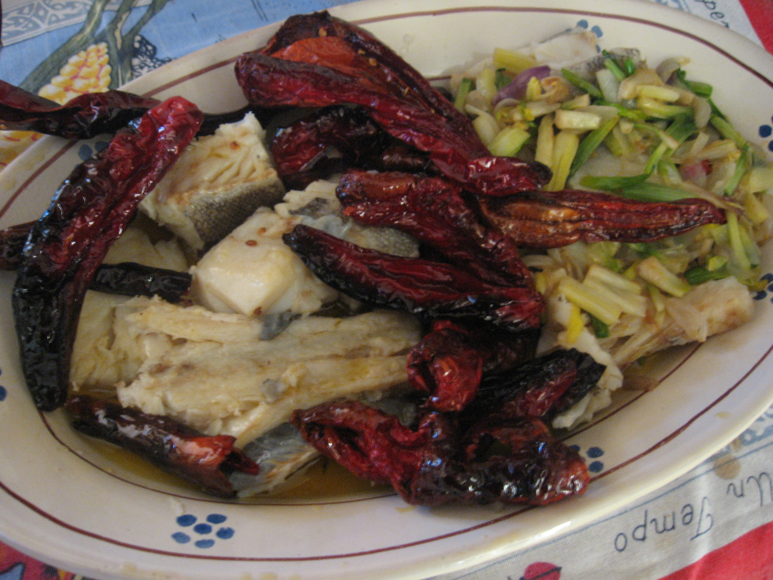 Salt cod with cruschi peppers